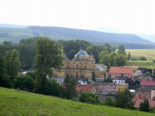 Wambierzyce, Poland. Viev on village and basilica.2005.07.17 It's my own photo. Drozdp 17:21, 21 July 2005 (UTC)